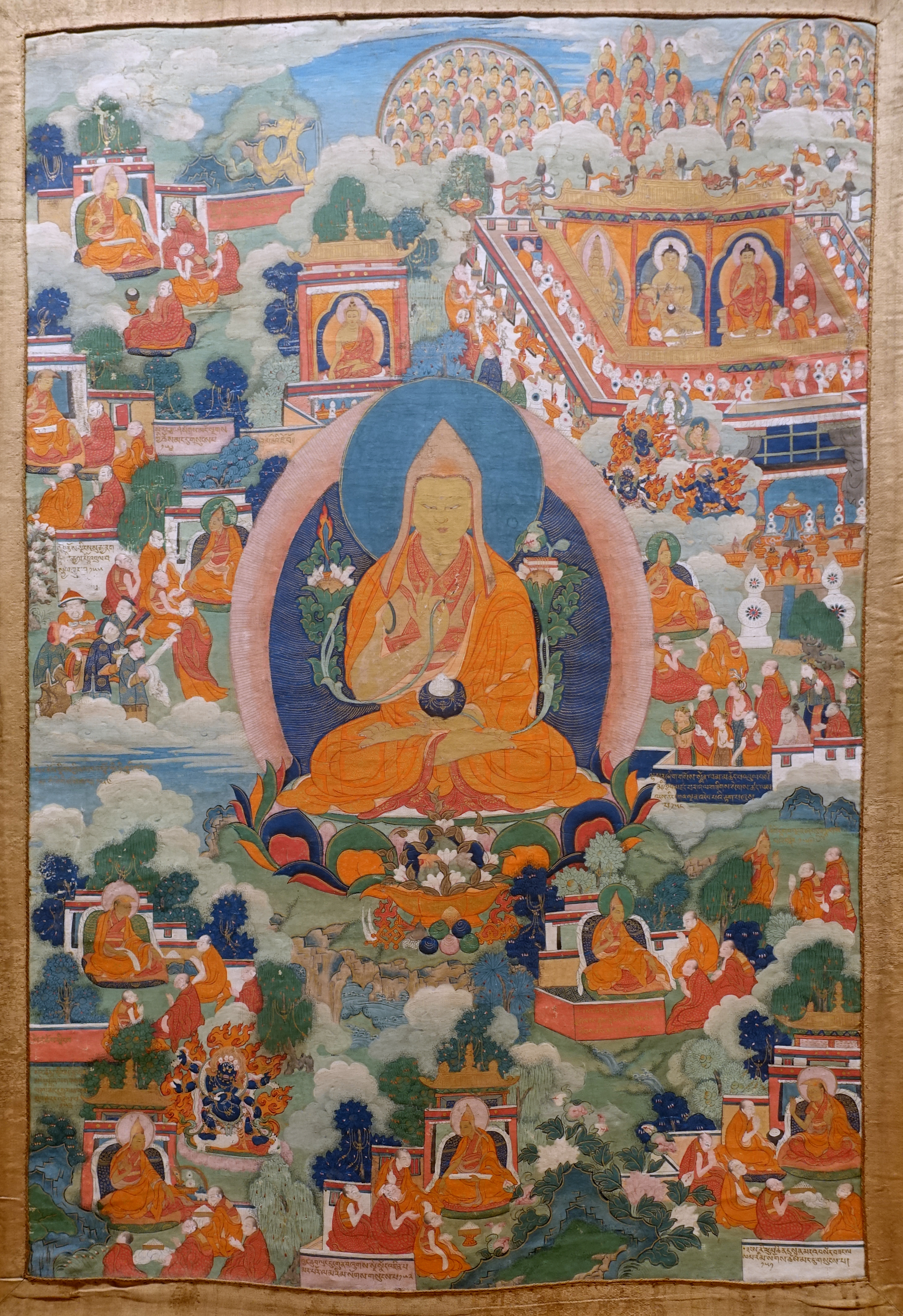 Exhibit in the Sichuan University Museum (四川大学博物馆) - Chengdu, Sichuan, China. This work is old enough so that it is in the public domain.